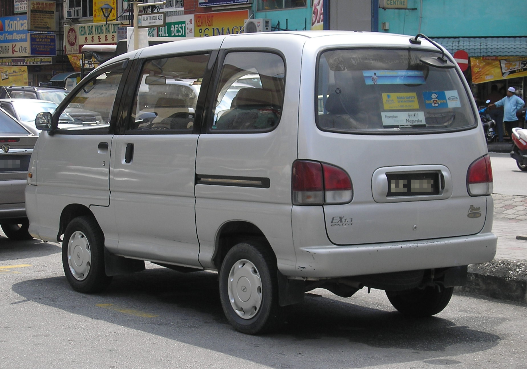 Rear-side shot of a first generation, first facelift (a very minor one to be precise) Perodua Rusa, in Kajang, Selangor, Malaysia.